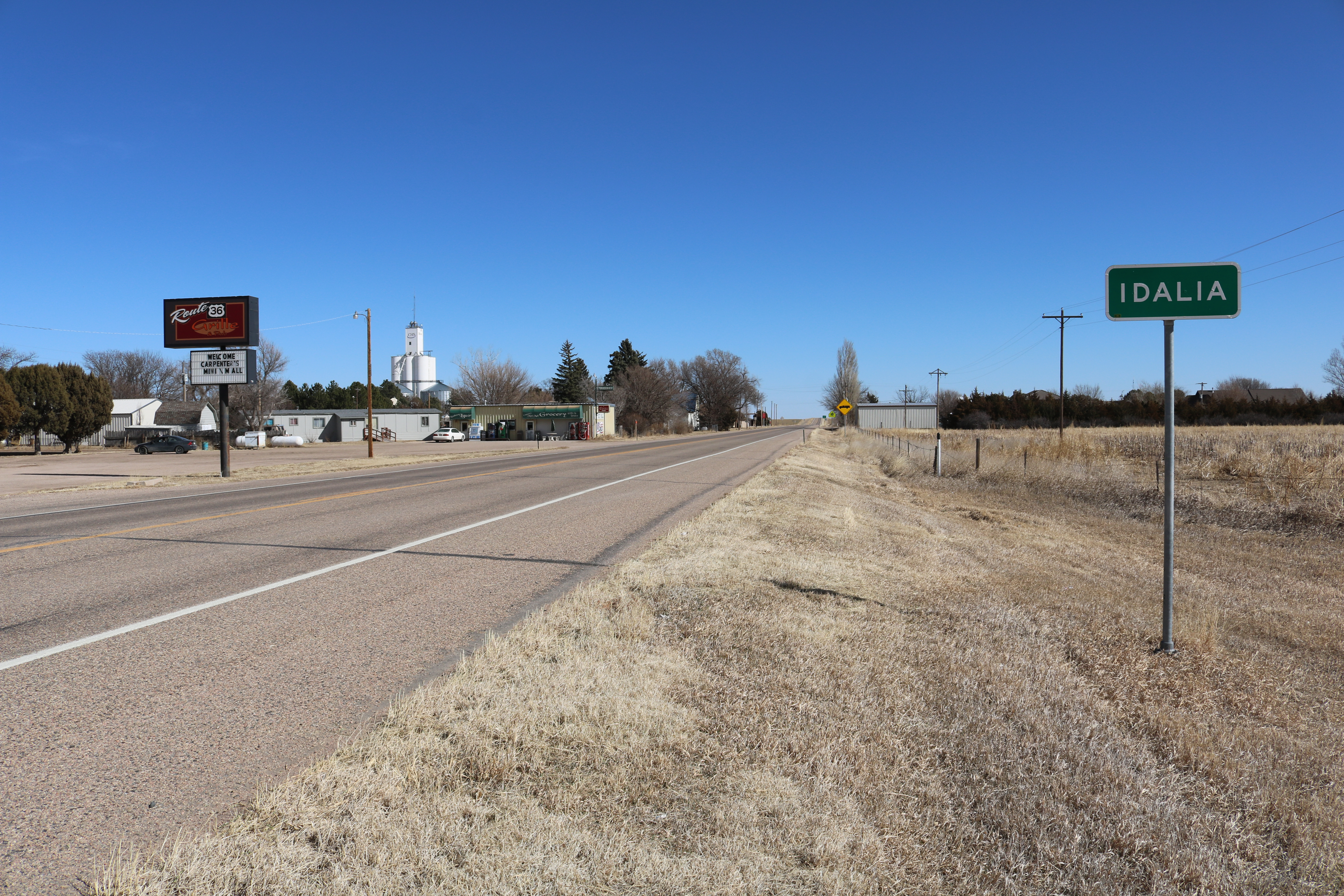 Idalia, Colorado, in Yuma County. The view is to the east on U.S. Route 36.